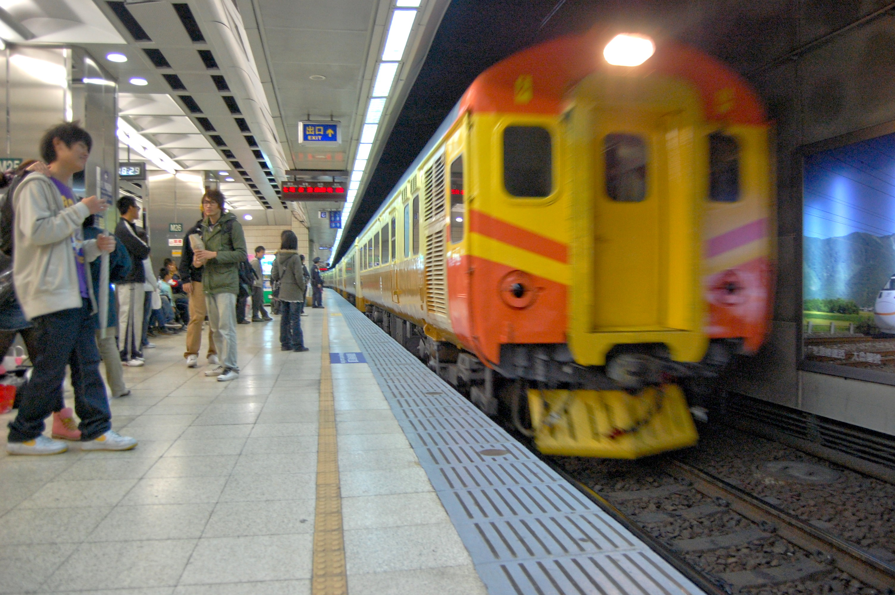 Taipei Main Station’s less-crowded underground platform with a British Rail Engineering Limited (BREL) EMU100, delivered in 1978 for the original Taiwan West Coast Mainline Electrification programme.